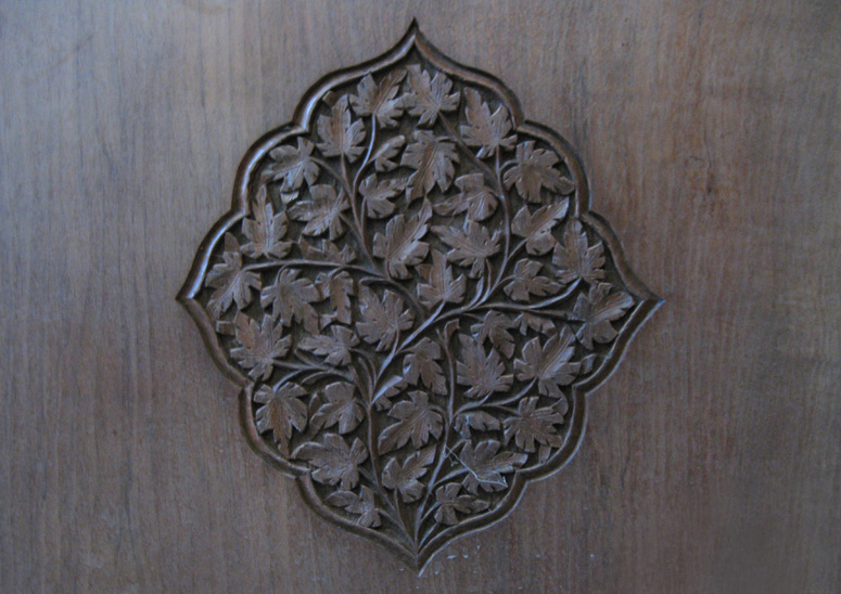 Walnut wood carving on the wall